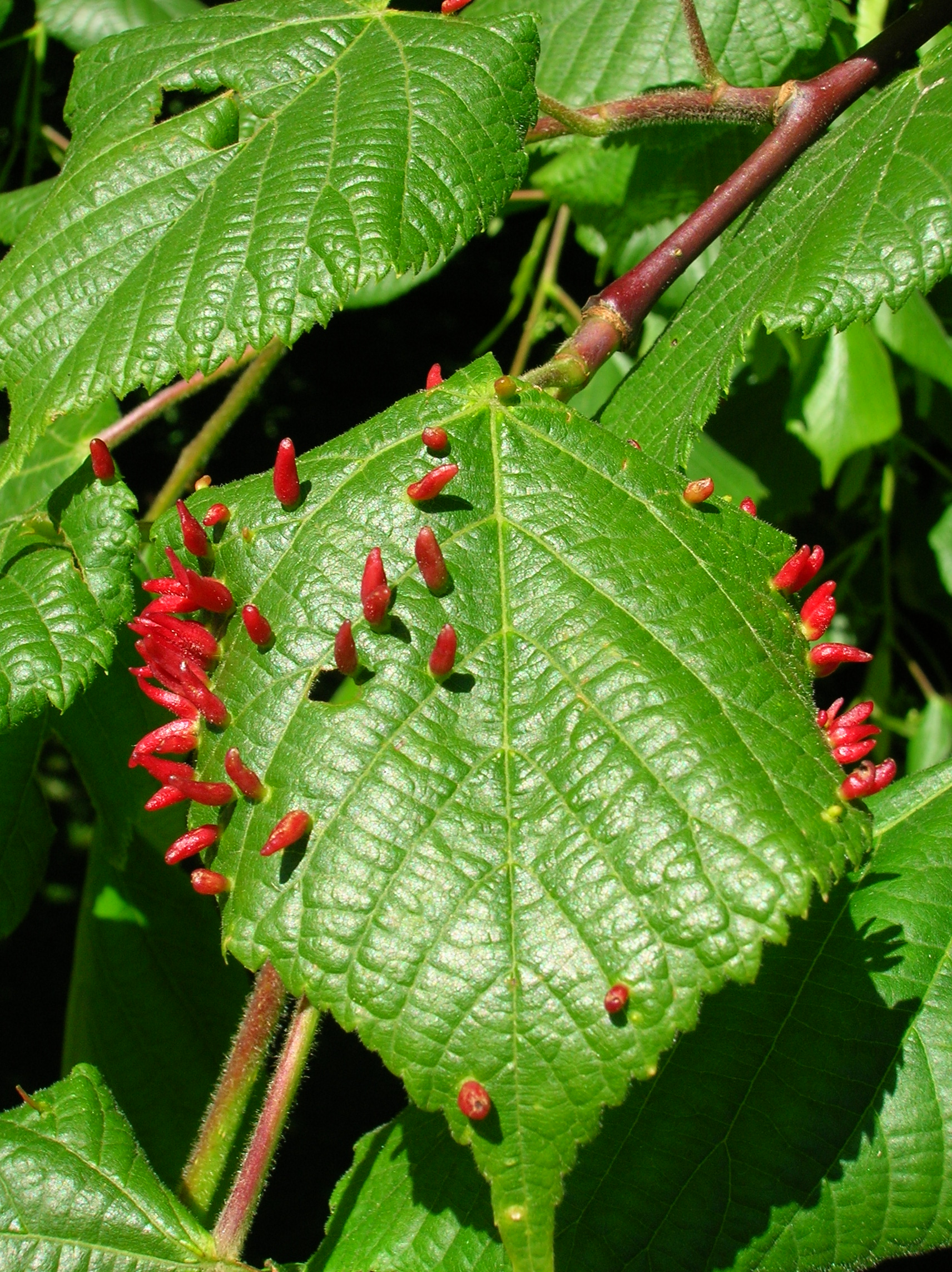 A group of Lime Nail galls (Eriophyes tiliae tiliae) on Tilia × europaea. North Ayrshire, Eglinton, Scotland.